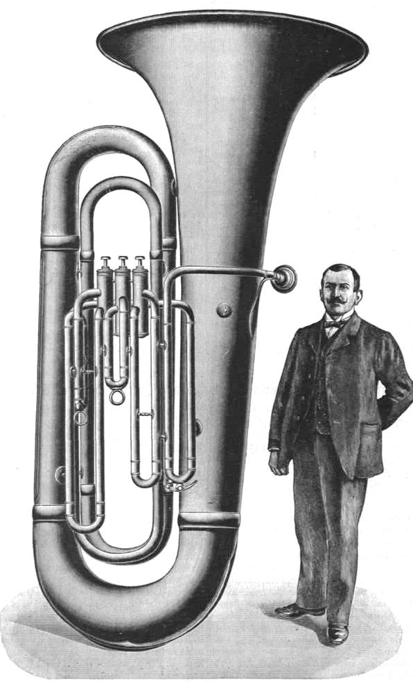 Subcontrabass tuba made by Bohland & Fuchs in Graslitz in 1911